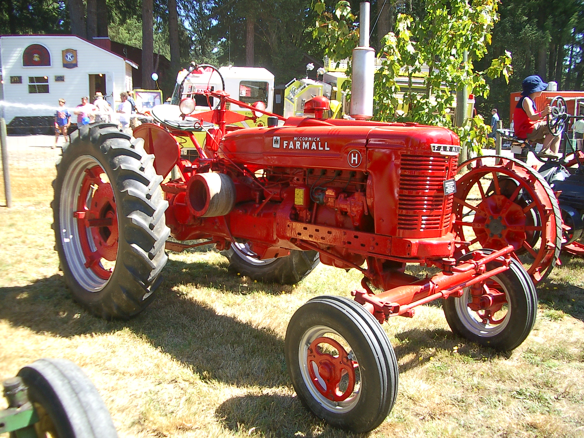 Farmall H tractor